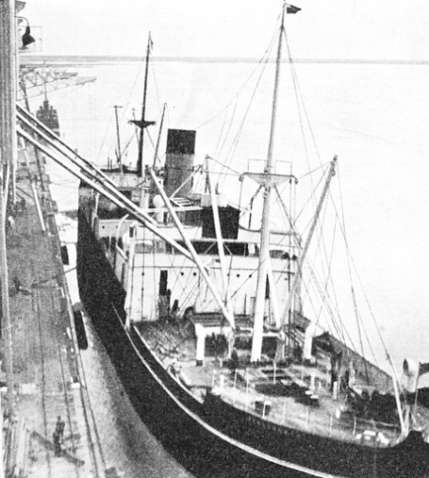 Pennyworth in Churchill, 1933. Original caption: “ONE OF THE FIRST GRAIN CARGOES to be loaded at Churchill went into the Pennyworth. When her holds had been cleared and the necessary shifting boards erected in them, the long pipe-arms were swung from the grain elevator and the grain began to pour in. About 8,000 tons of grain were loaded on this occasion.”